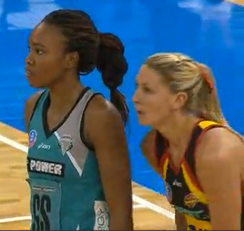 Enhance netball coverage. Magic vs Thunderbirds 2010 Grand Final.